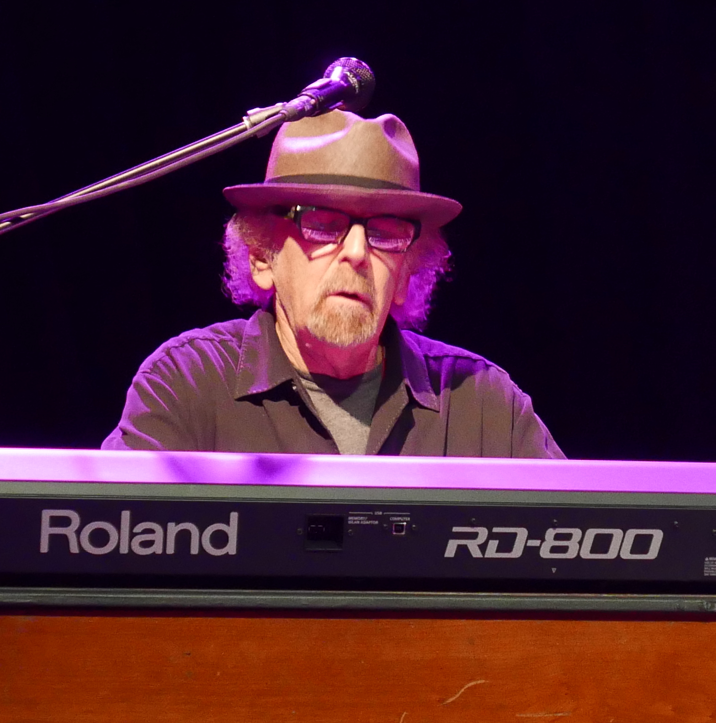 Barry Goldberg during a performance of The Rides at UC Theater, Berkeley, CA, on June 02, 2016